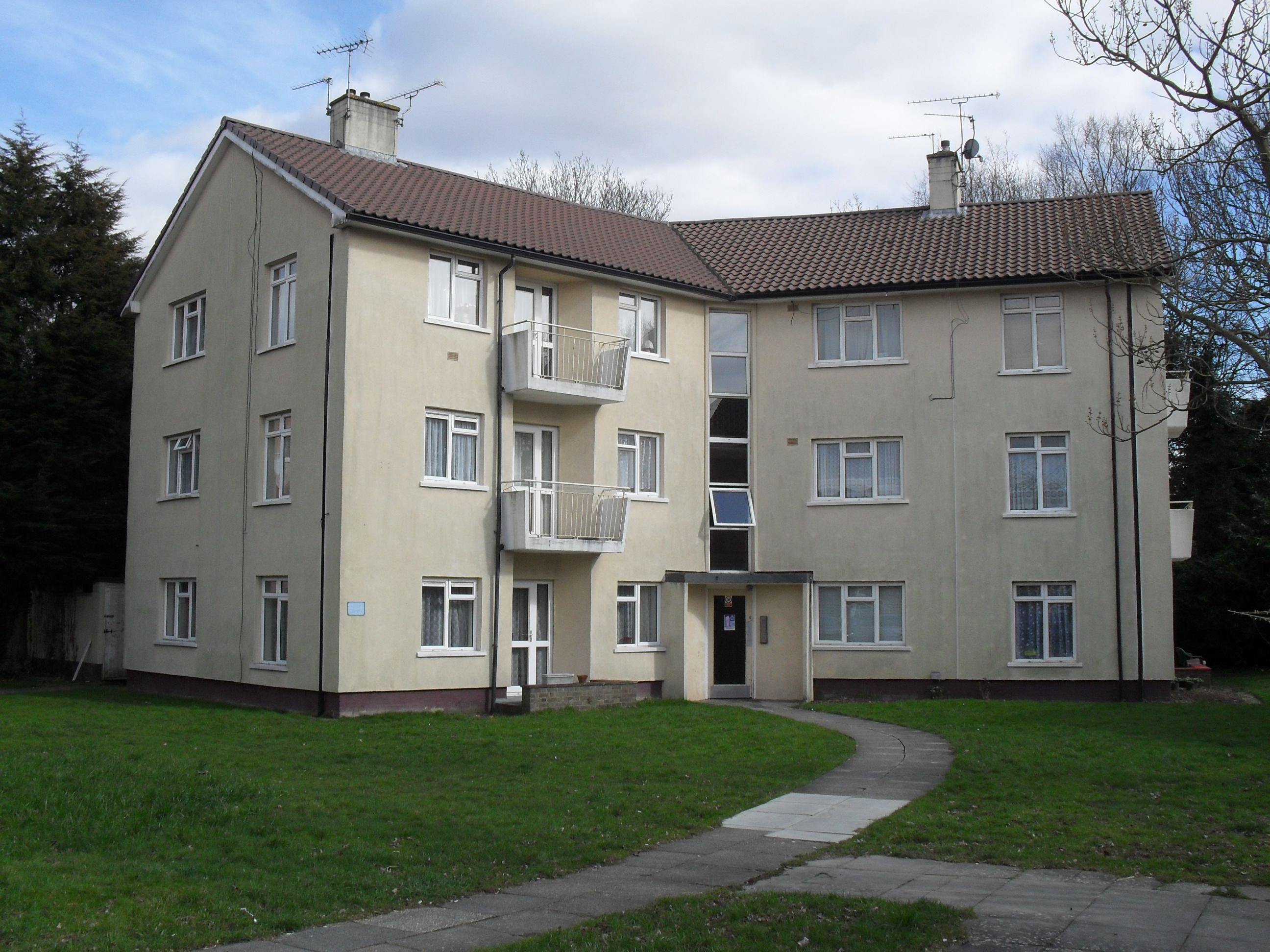 One of the blocks of flats in the Sunnymead development, an early New Town housing scheme in the West Green neighbourhood of Crawley, England. Built c. 1950.